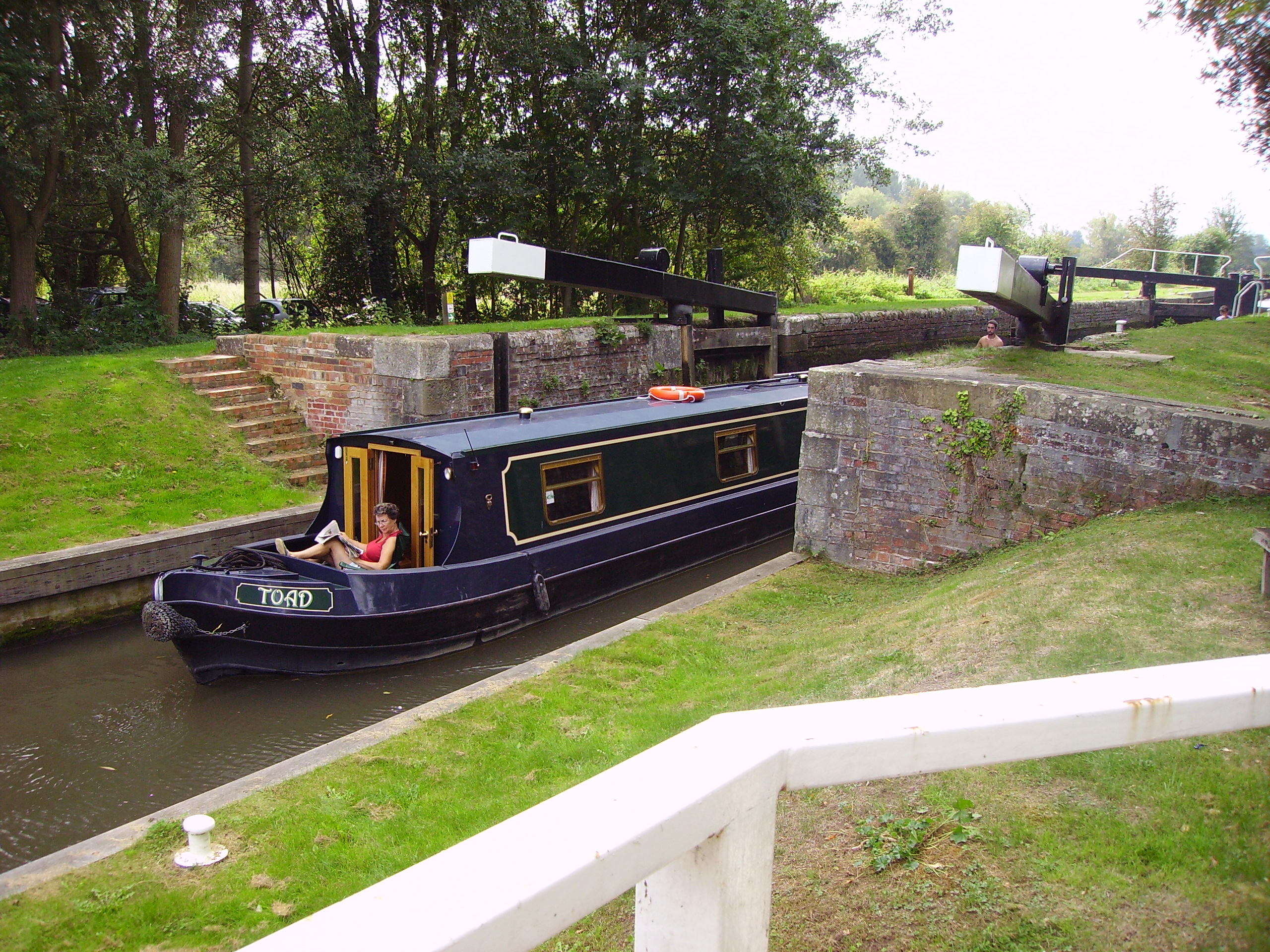 Photographer: User:Ballista